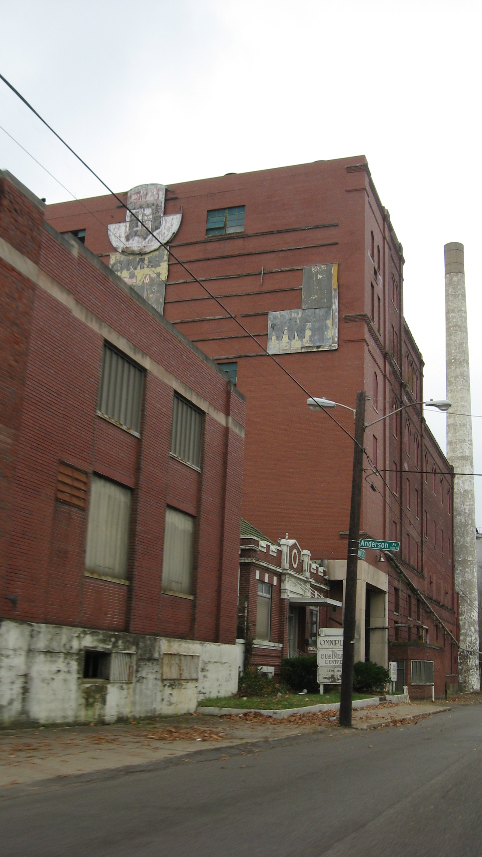 Front of Muessel-Drewry's Brewery, located at 1408 Elwood Avenue in South Bend, Indiana, United States. Built in 1911, it is listed on the National Register of Historic Places as a historic district.